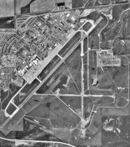 USGS orthophoto of Malmstrom Air Force Base in Great Falls, Montana, United States.